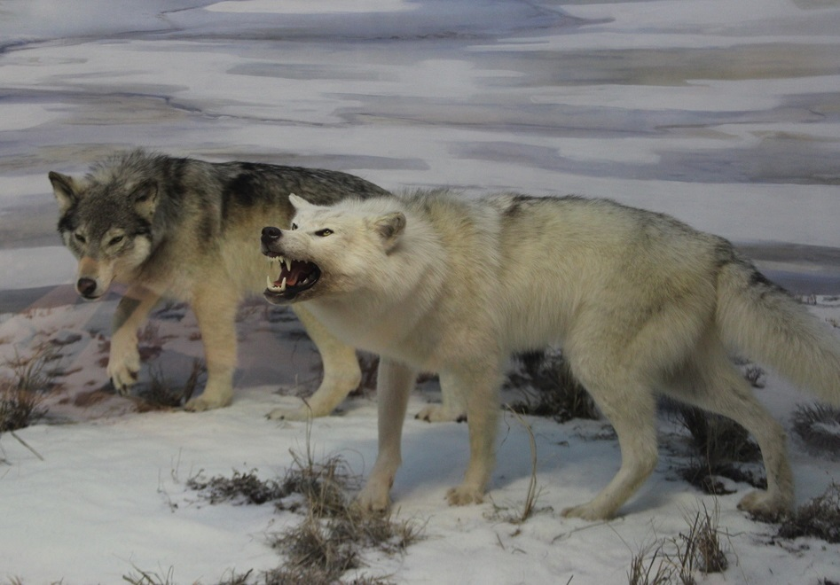 Beringian wolves diorama at the Yukon Beringia Interpretive Centre, Whitehorse, Yukon, Canada. The full diorama shows a short-faced bear attempting to take the wolves' kill from them. The models were created by paleoartists who work at the centre in consultation with paleontologists.